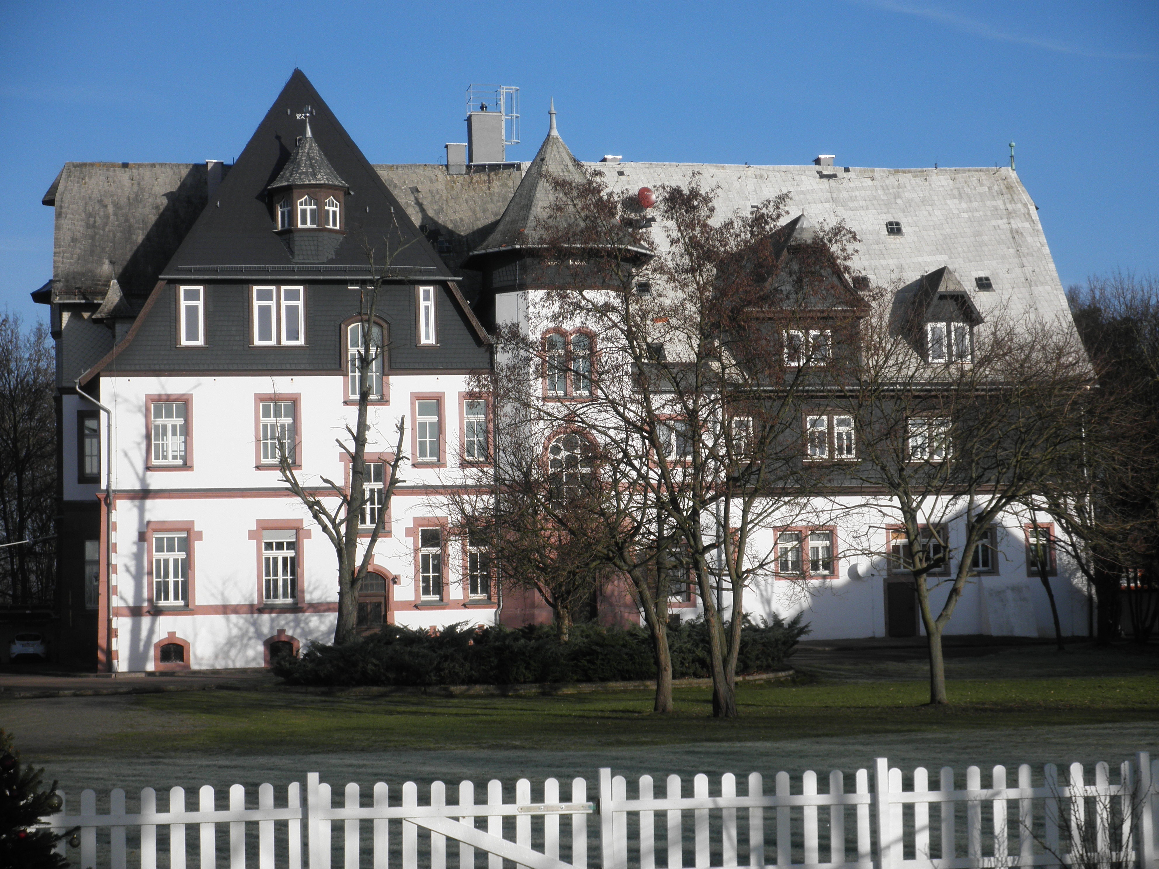 Carlsburg Castle in Sundhausen (Nordhausen) in Thuringia